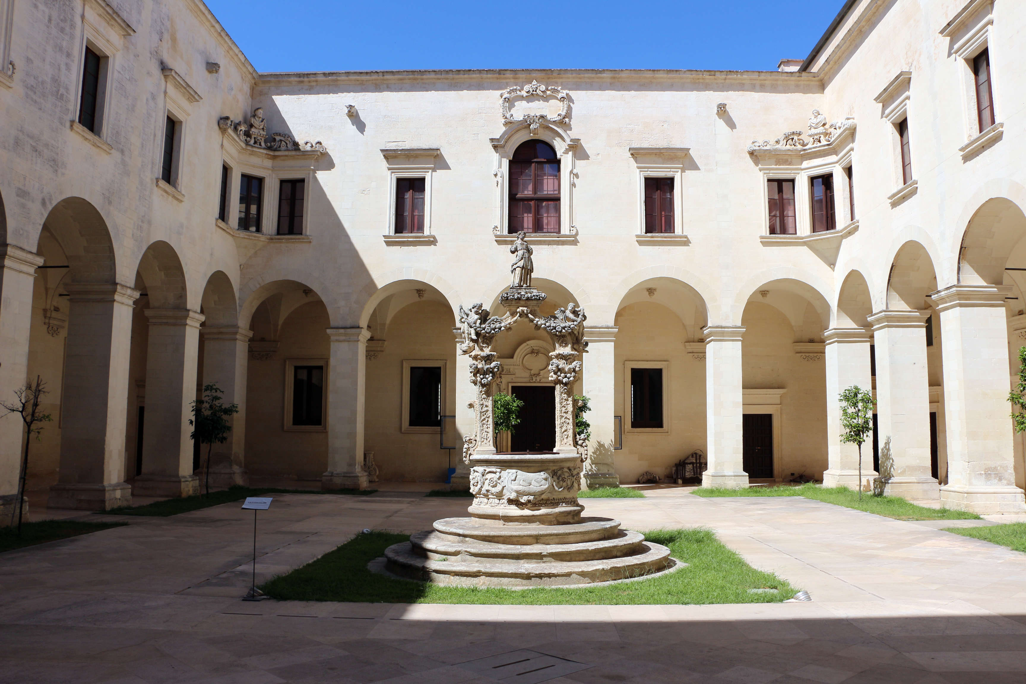 Museo Diocesano (Lecce)